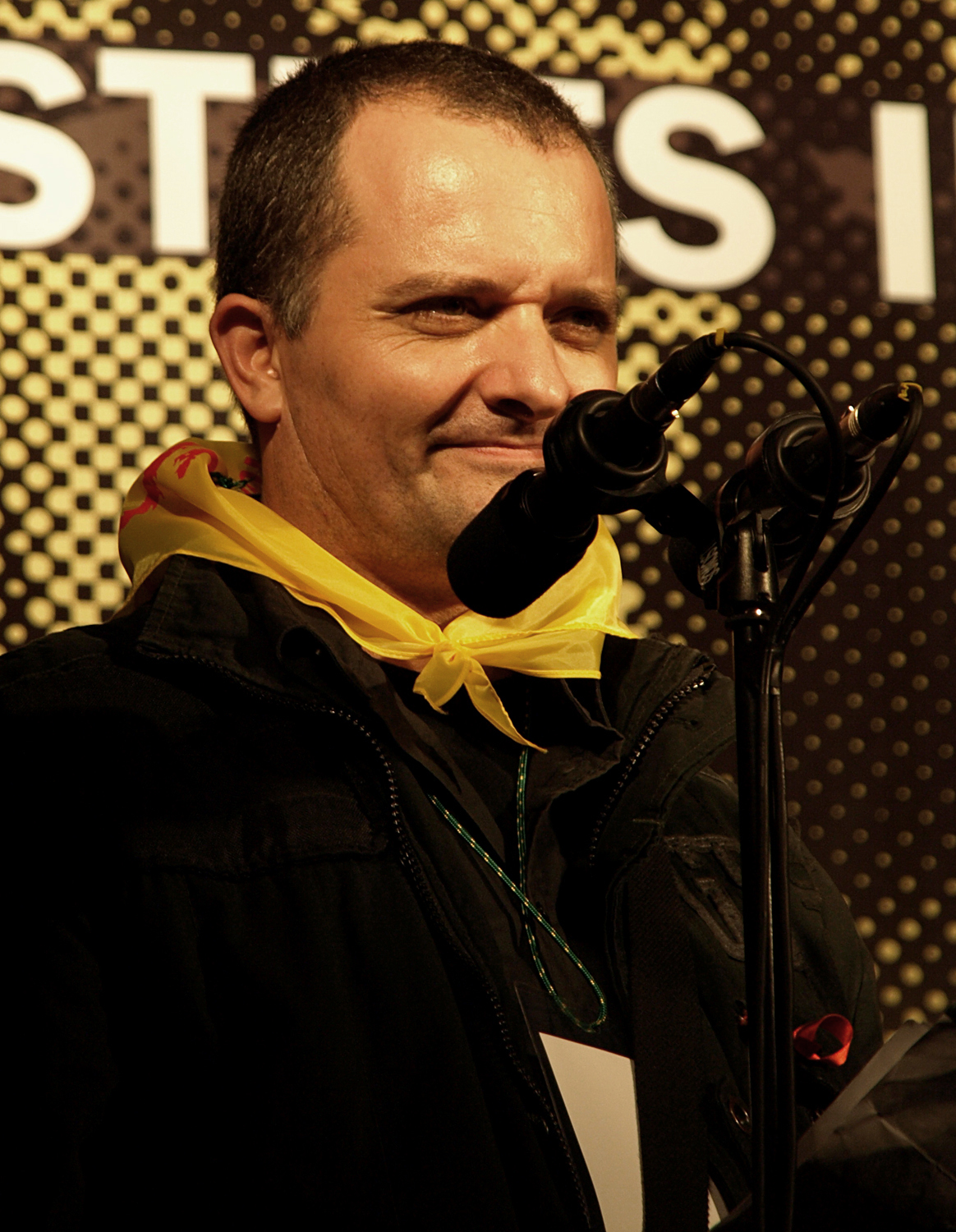 Toni Albà - Catalan actor and director (1961 - august - 13)